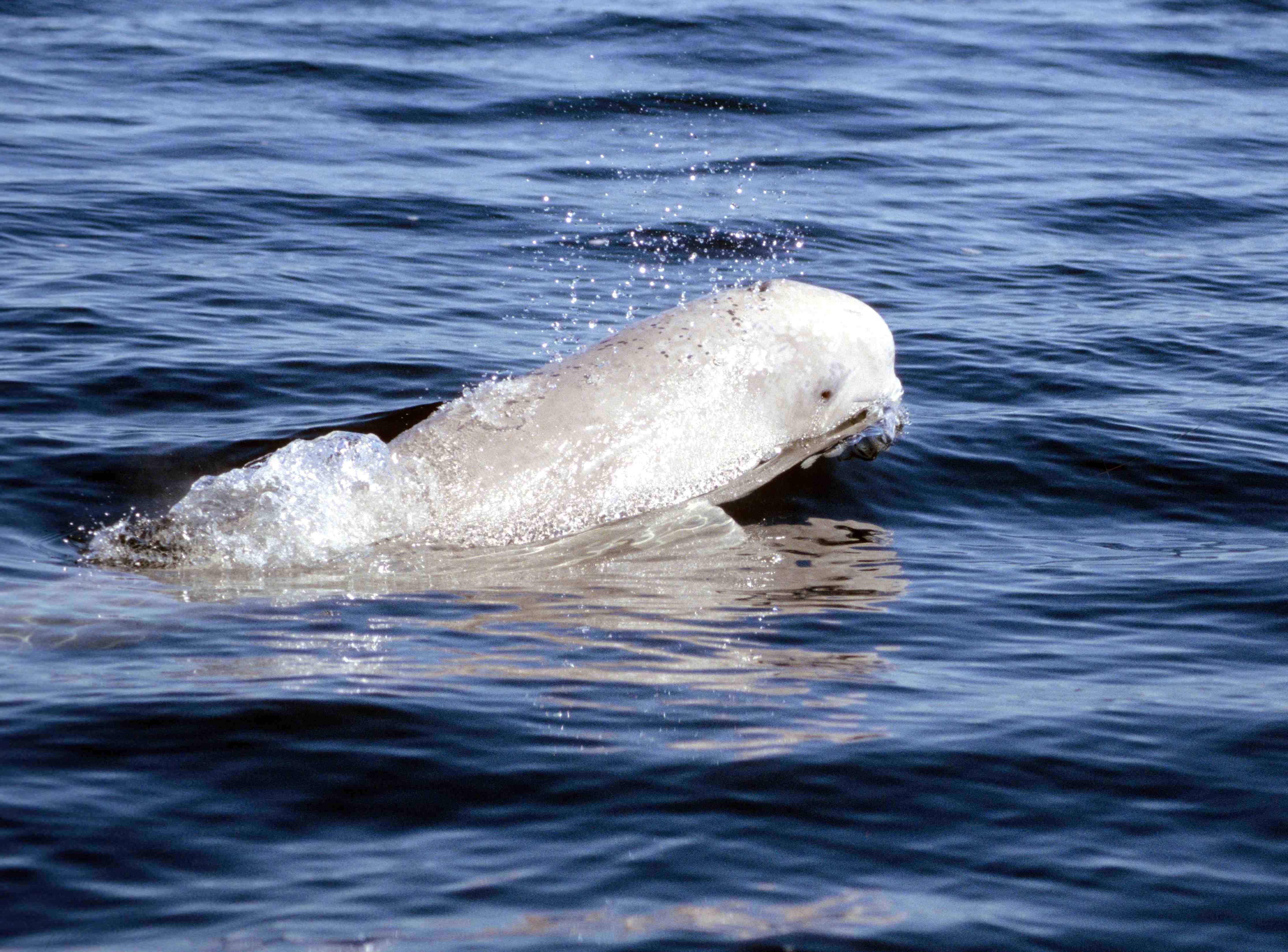 White Whale or Beluga Whale (Delphinapterus leucas) from Churchill River near Hudson Bay (Canada)